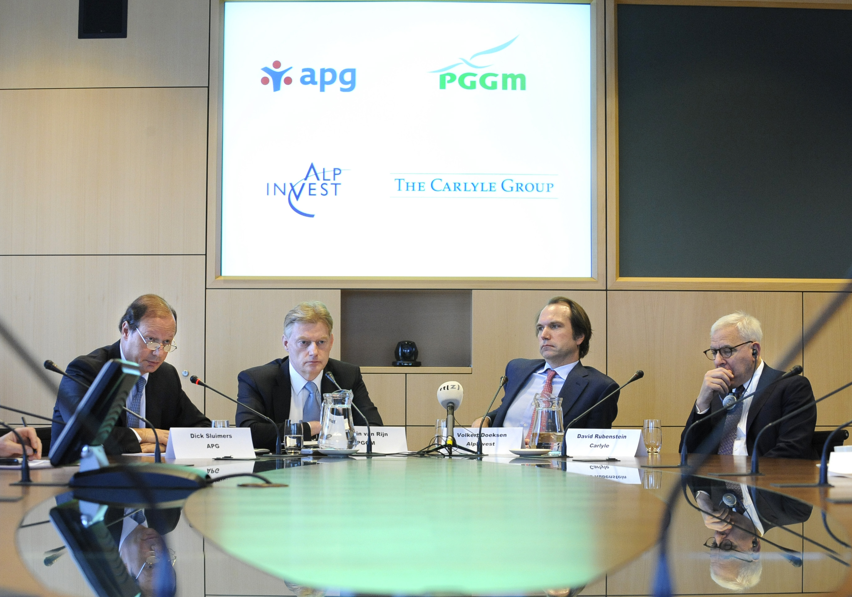 Press conference with regard to the announcement for the merger of Alpinvest with The Carlyle Group